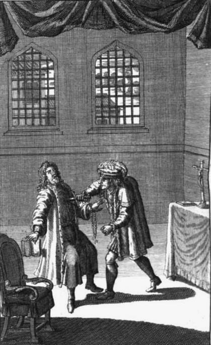 Illustration from Henry VI from Nicholas Rowe's 1709 edition of Shakespeare's Complete Works